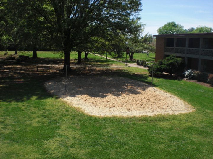 Quad at Belmont Abbey